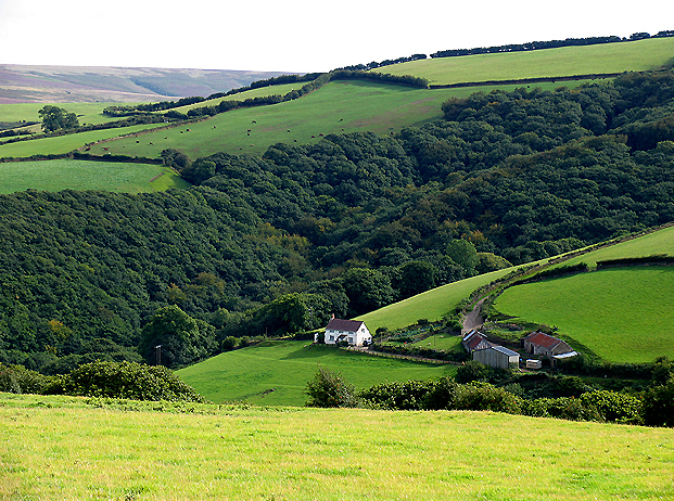 Homebush Farm: Exmoor. This picture was taken from the A39 looking south westish.